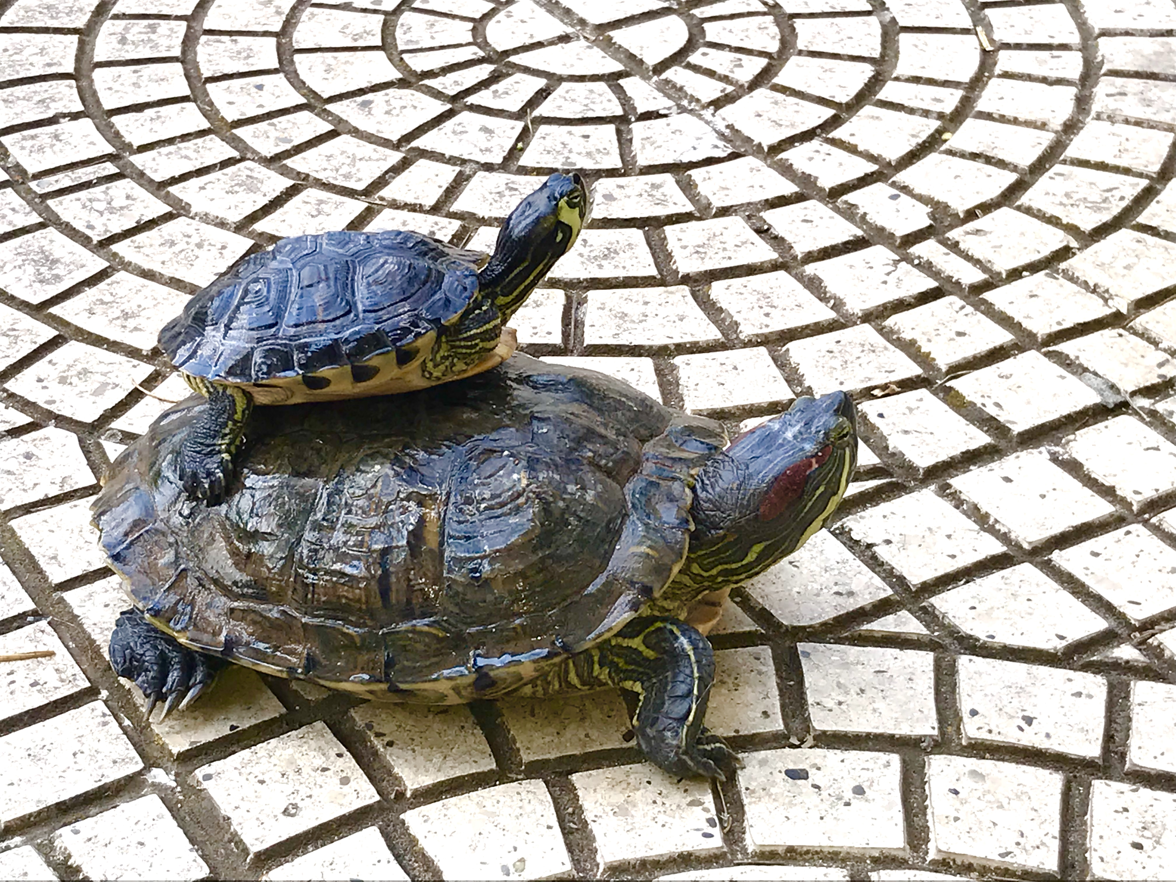 A young Yellow-bellied slider basking on the back of a Red-eared slider.